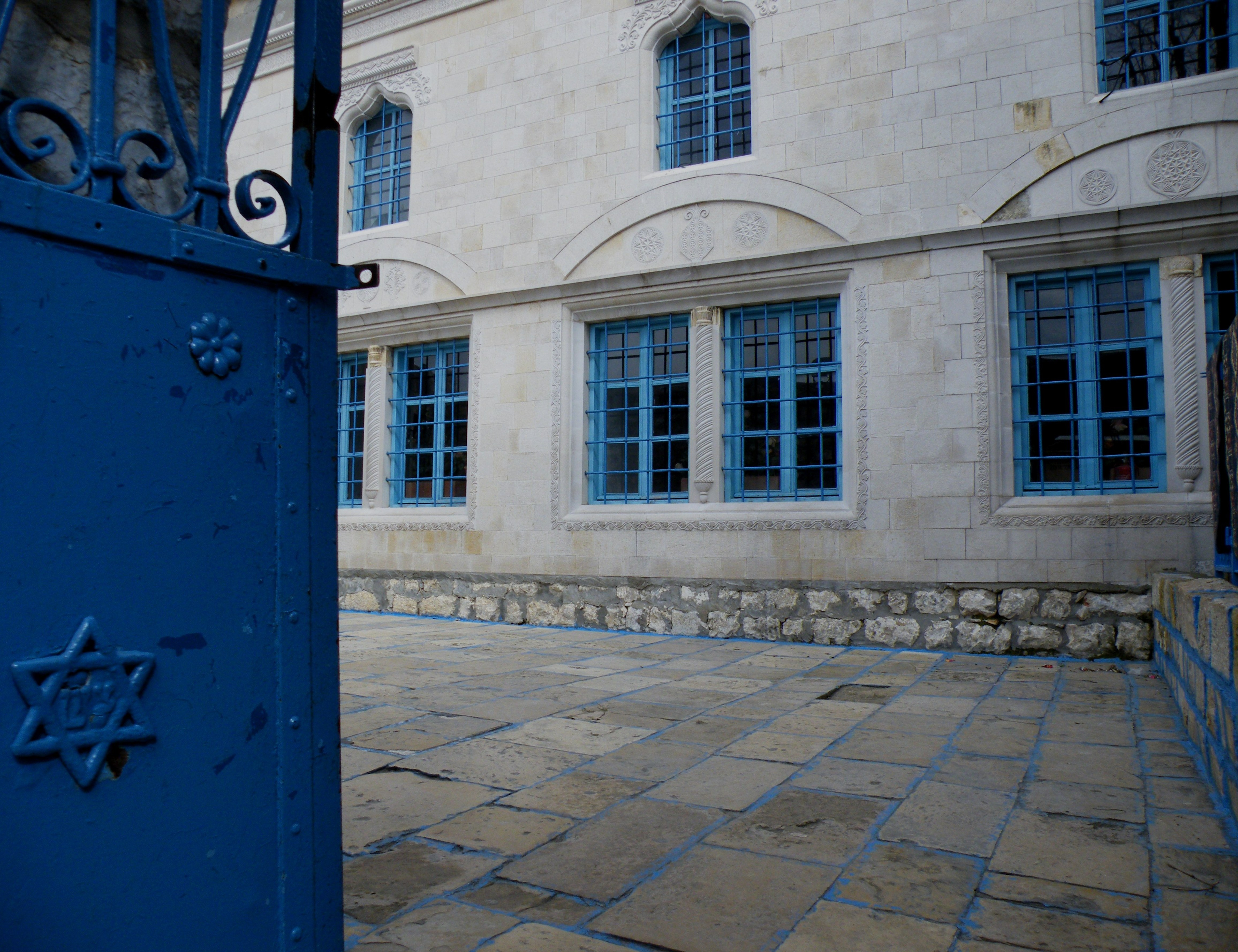 Courtyard